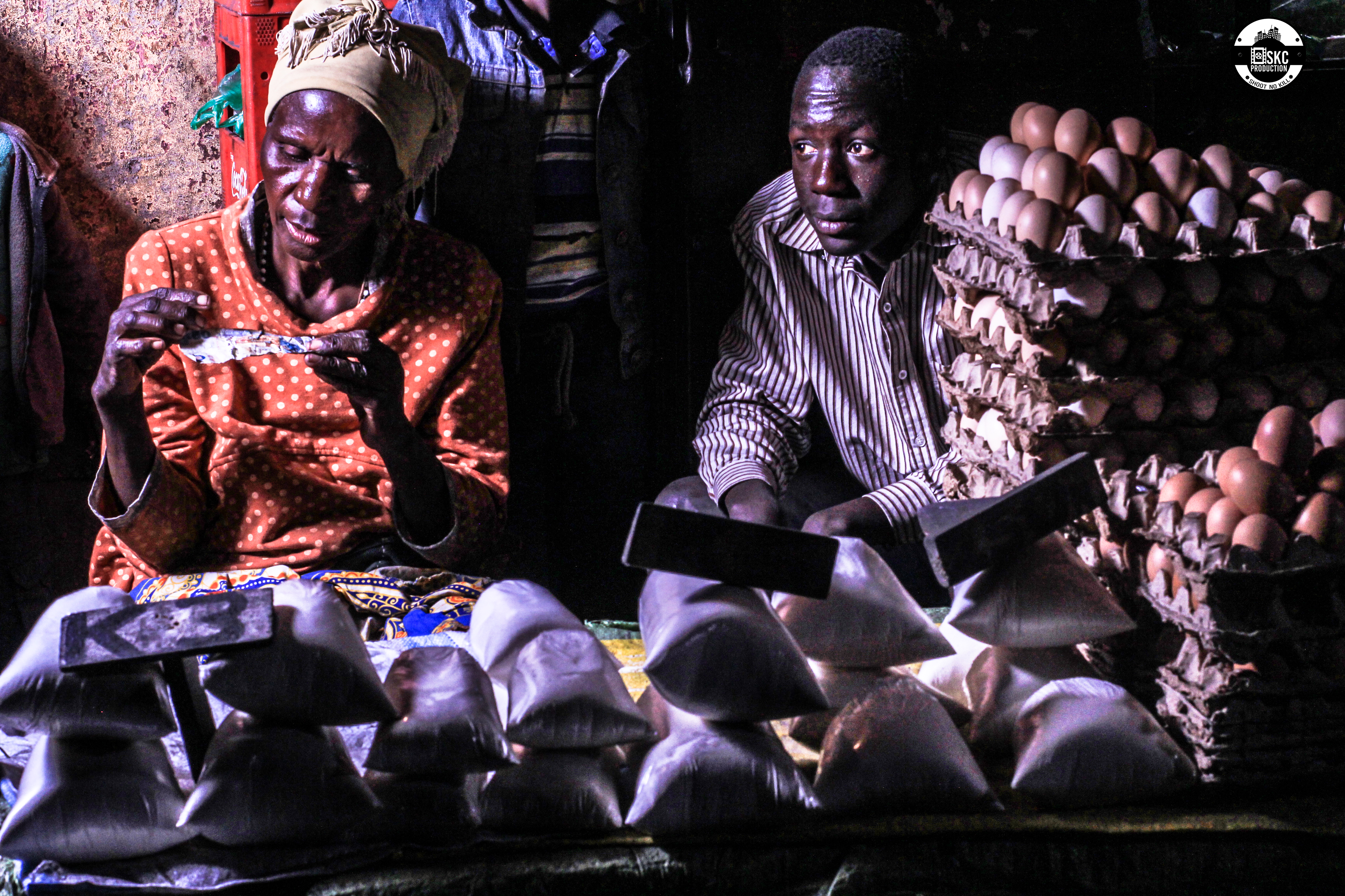 This woman we see here is carefully checking the money that the customer has given her if its not a fake note. Checking if its not a fake Zambian kwacha note This is an image of "African people at work" from Zambia